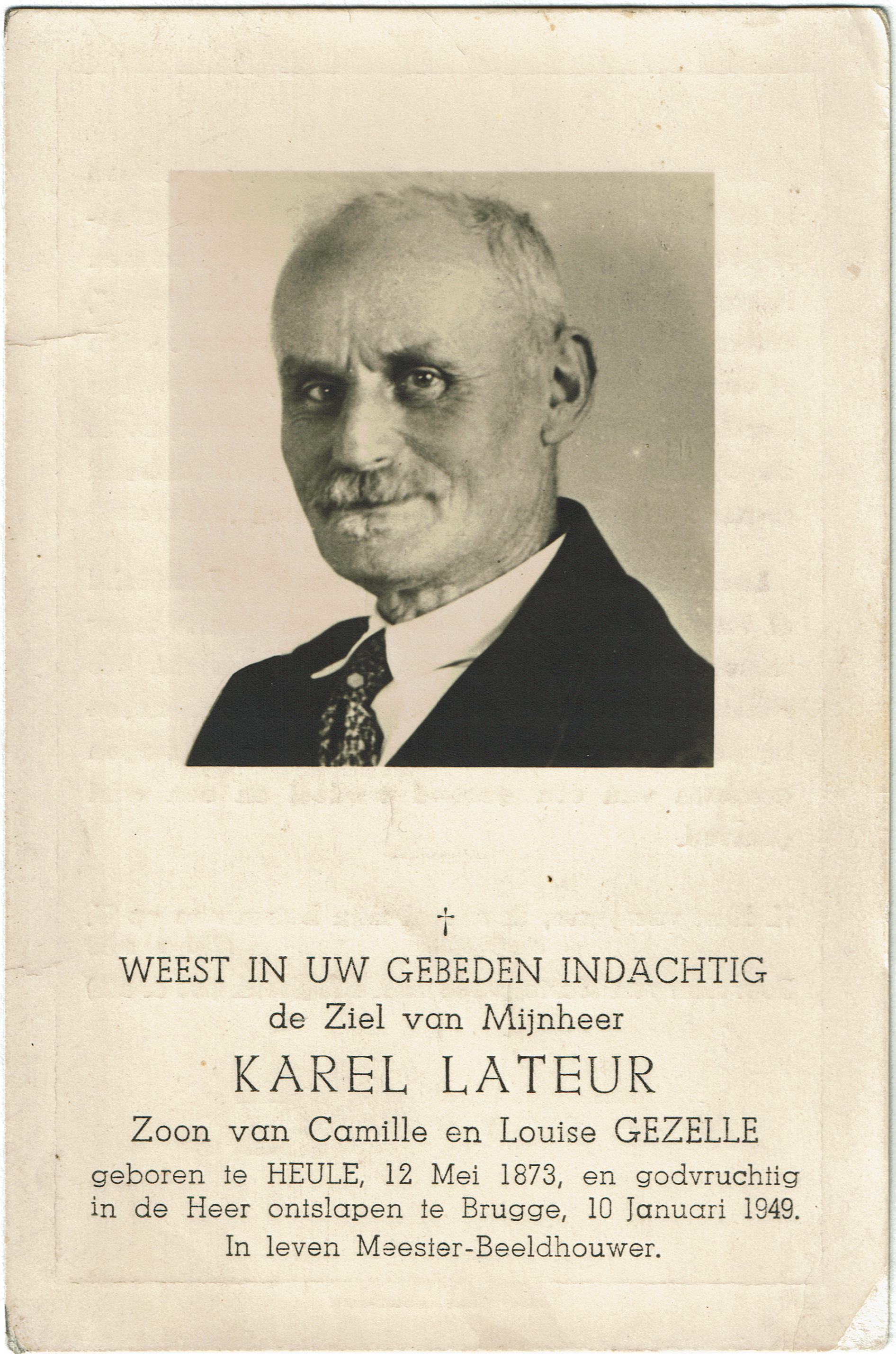 In memoriam card of Belgian sculptor Karel Lateur (1873-1949)